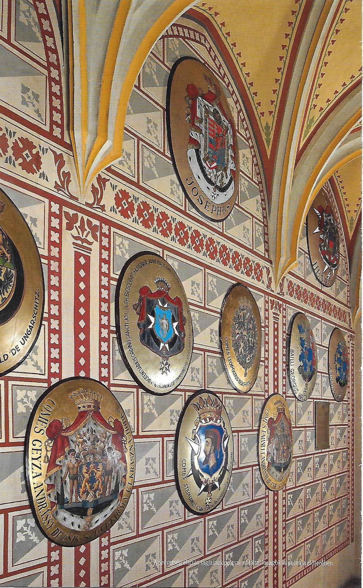 Shields of deceased members of the Hungarian Association of the Sovereign Military and Hospitaller Order of St. John of Jerusalem, Rhodes and Malta in the corridor leading to the Knights' chapel within the Coronation Church, Buda Castle, Hungary